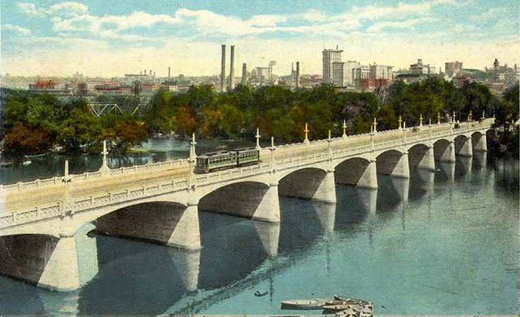 Early 20th-century postcard of the 14th Street Bridge in Richmond, Virginia. Postmarked 1917.